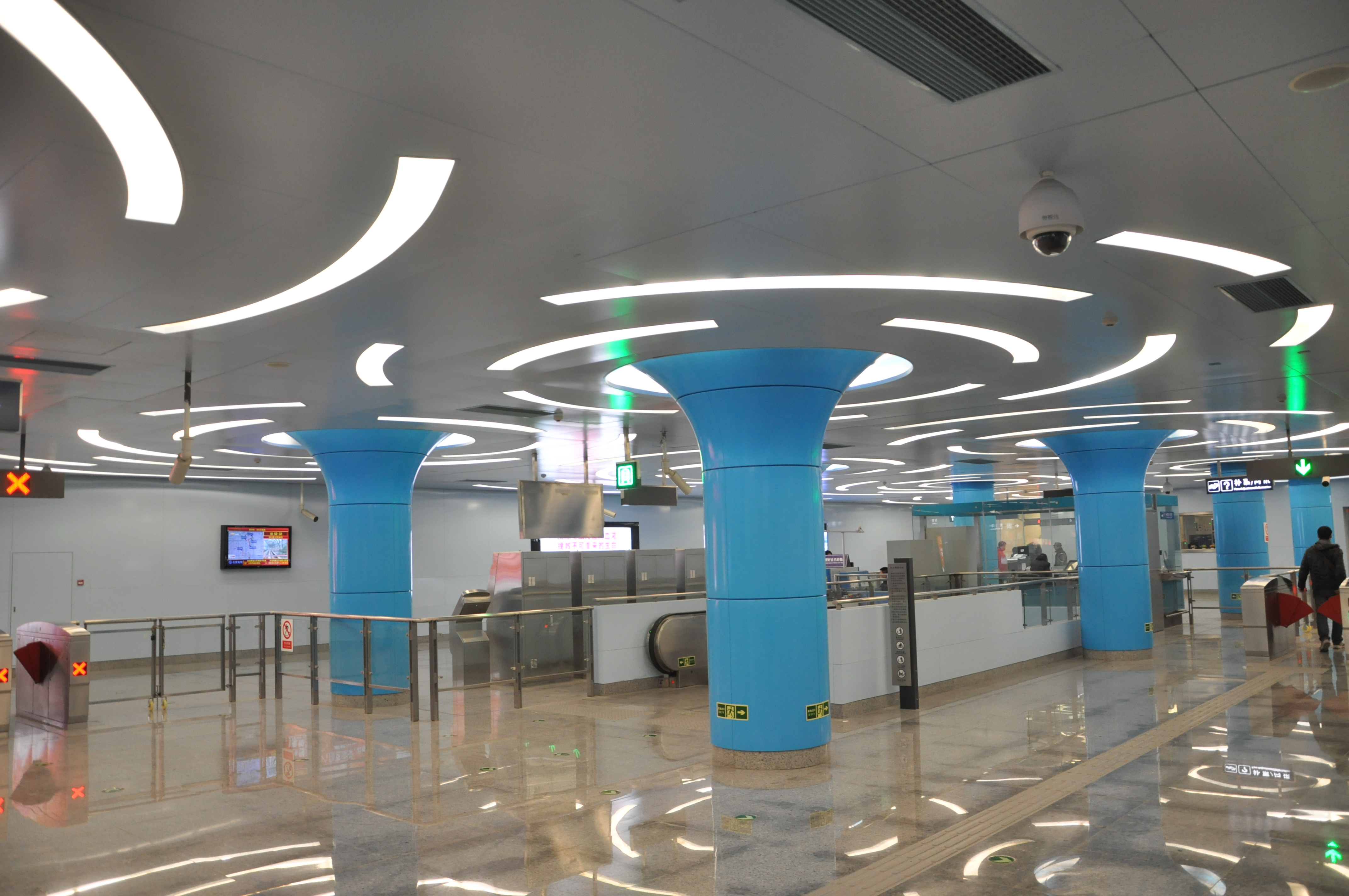 Hall of Panjiayuan station, Line 10, Beijing Subway. There're circle lights around pillars.